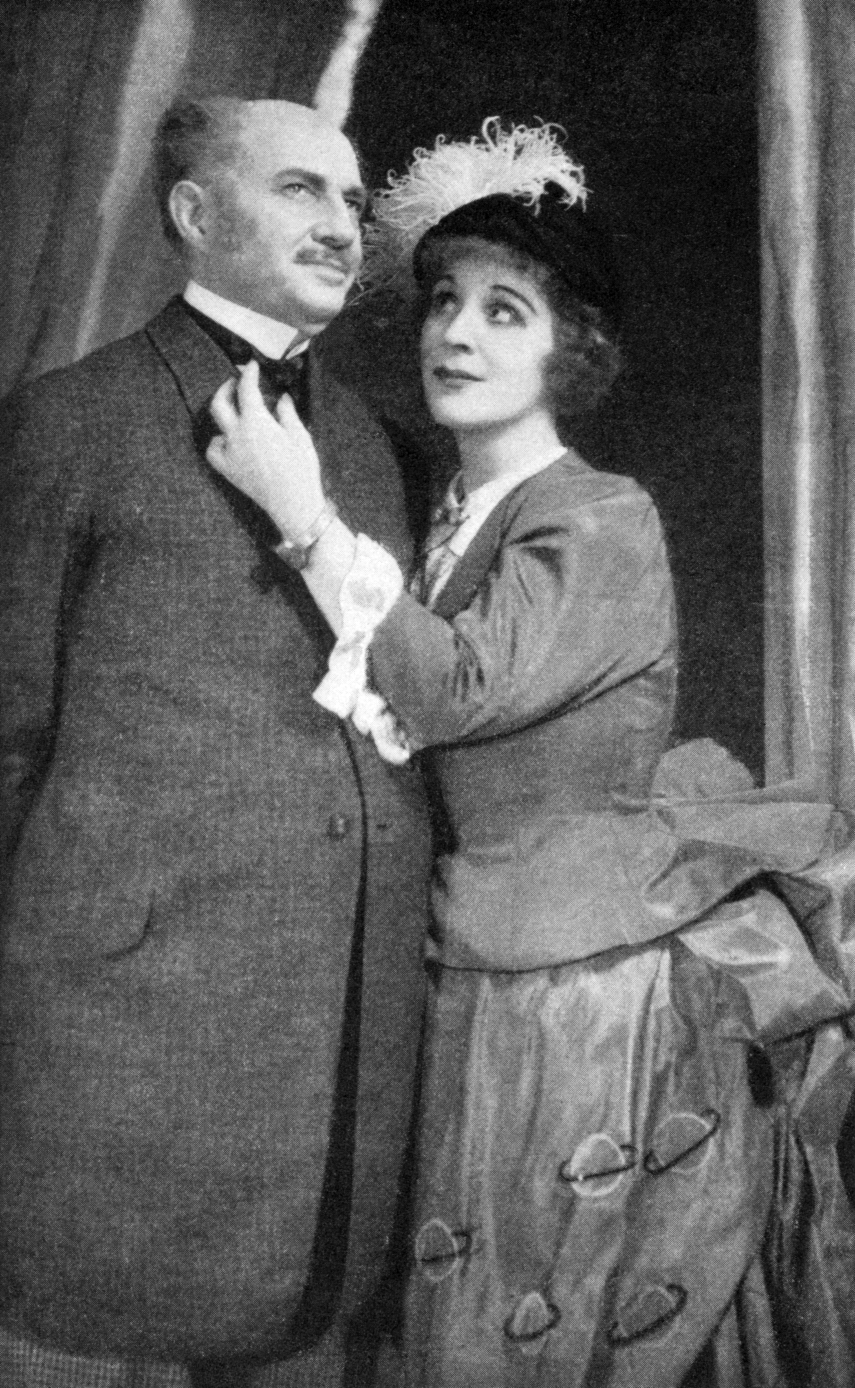 Promotional photograph for the Broadway production of The Merchant of Yonkers, featuring Percy Waram and Jane Cowl